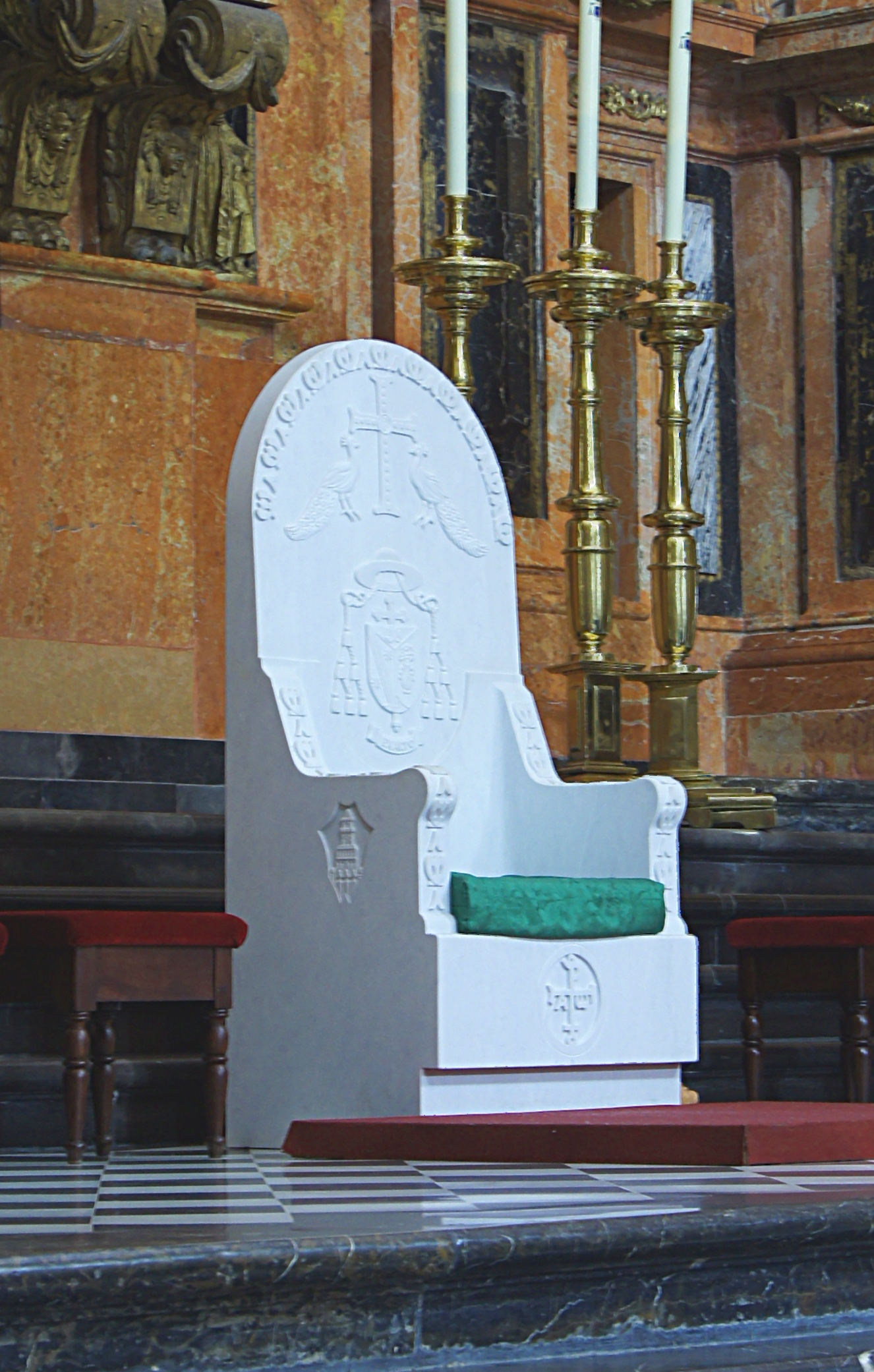 The Cathedra (Throne) of His Excellency the Bishop of Cordoba, Cathedral, Spain.